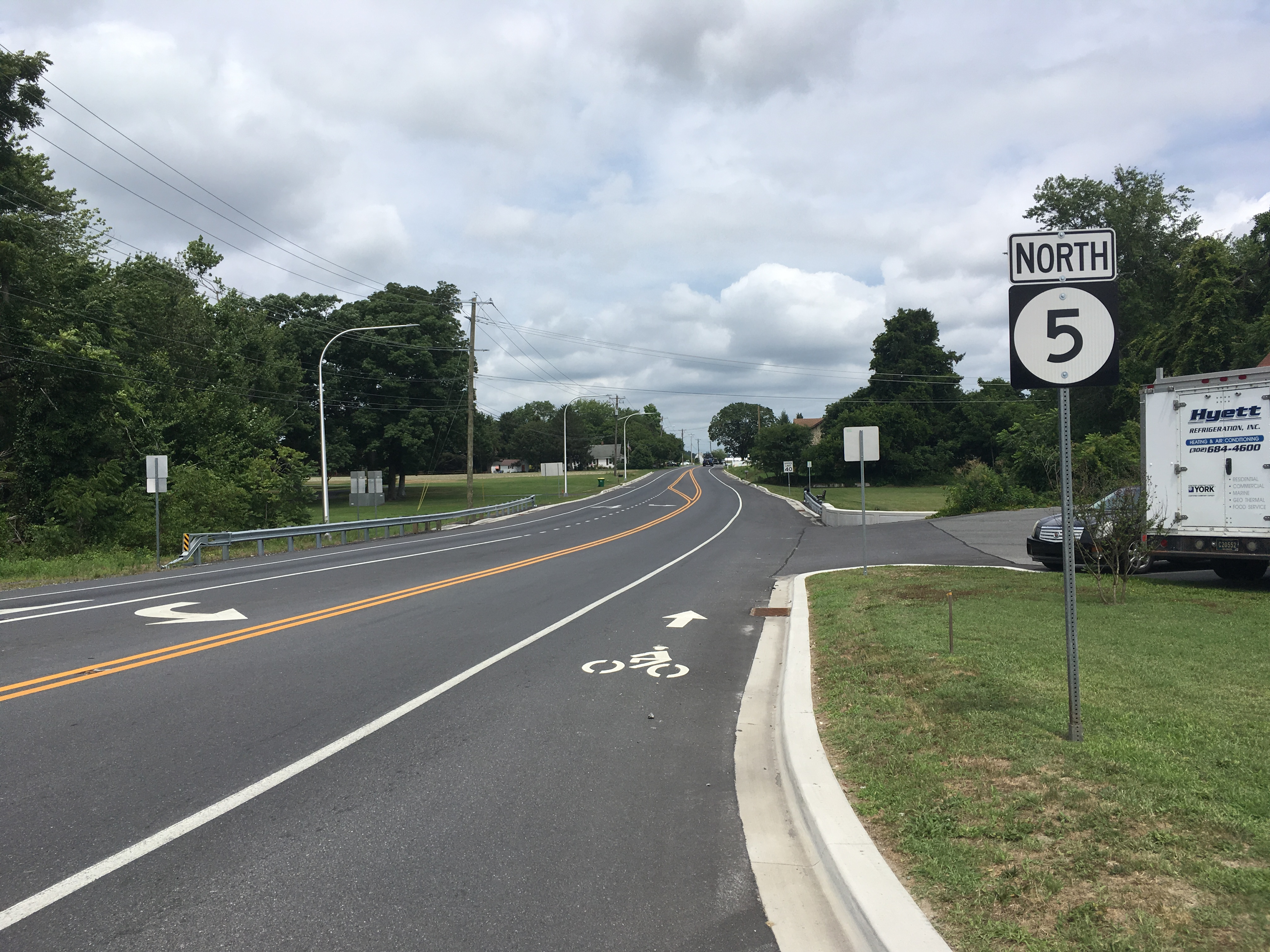 Northbound Delaware Route 5 (Harbeson Road) past the intersection with U.S. Route 9/Delaware Route 404 (Lewes Georgetown Highway) in Harbeson, Delaware